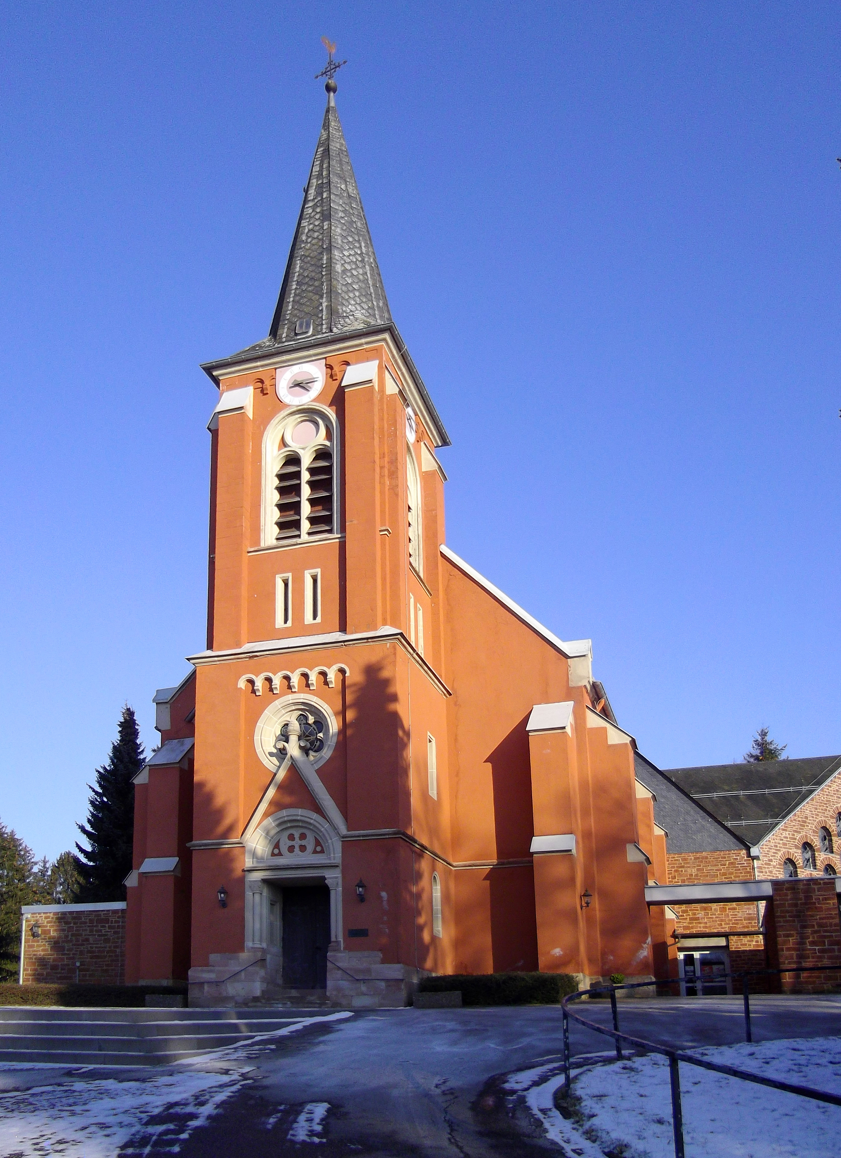 exterior of the church in kostenbach